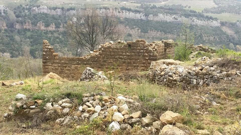 بقايا بيوت تراثية تعود لقرون خلت-المغيري